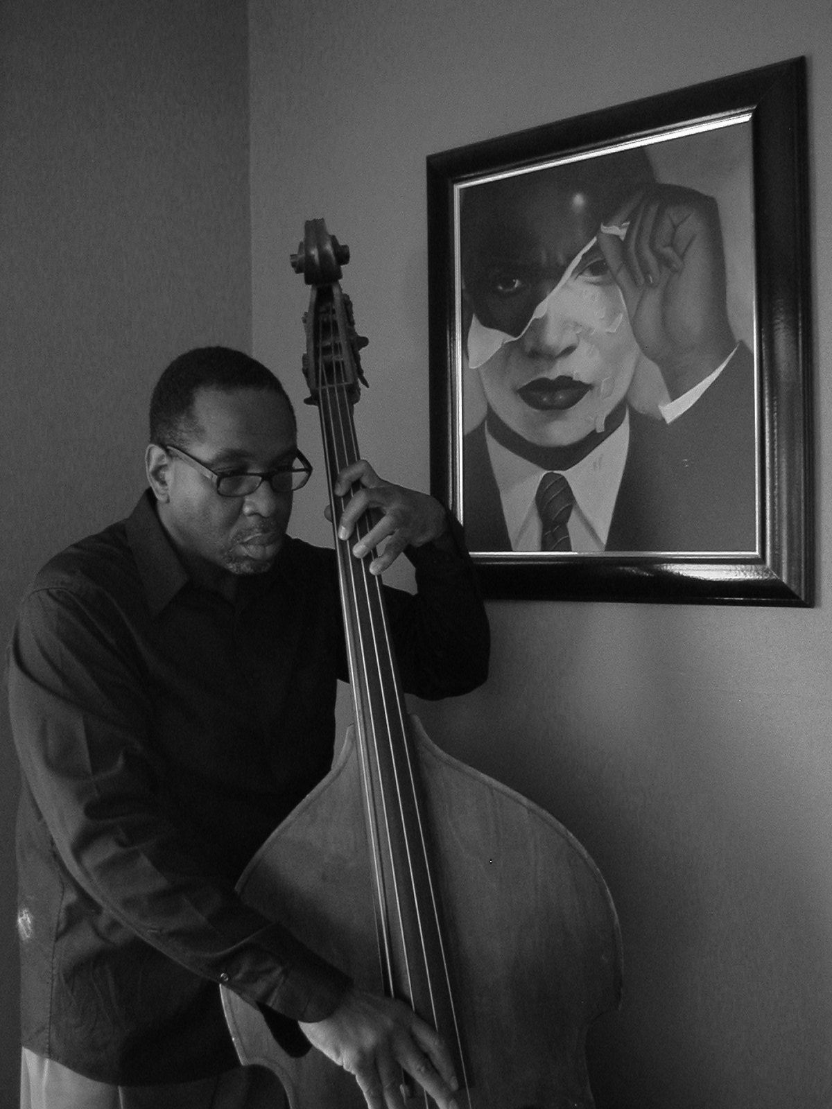 American jazz, rock bassist, cmposer, recording artist.